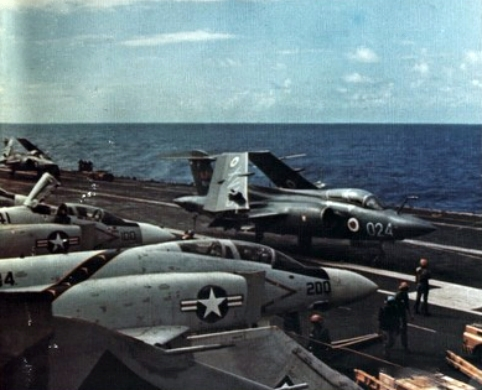 A Royal Navy Blackburn Buccaneer S.2 from 809 Naval Air Squadron, assigned to HMS Ark Royal (R09), aboard the U.S. Navy aircraft carrier USS Franklin D. Roosevelt (CVA-42). The FDR, with assigned Carrier Air Wing 6, was deployed to the Mediteranean Sea from 15 February to 11 December 1972.